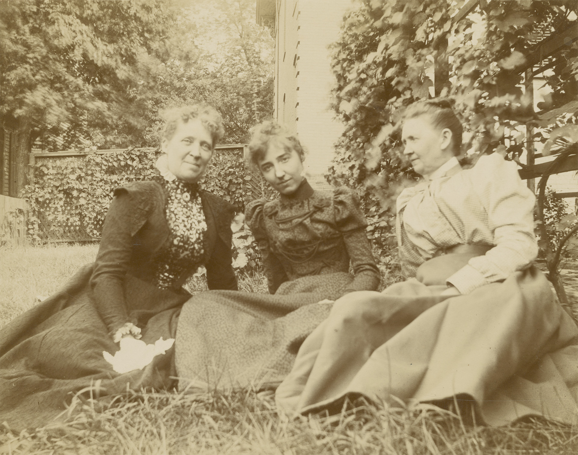 Photograph of Ethel Mars with her mother and aunt